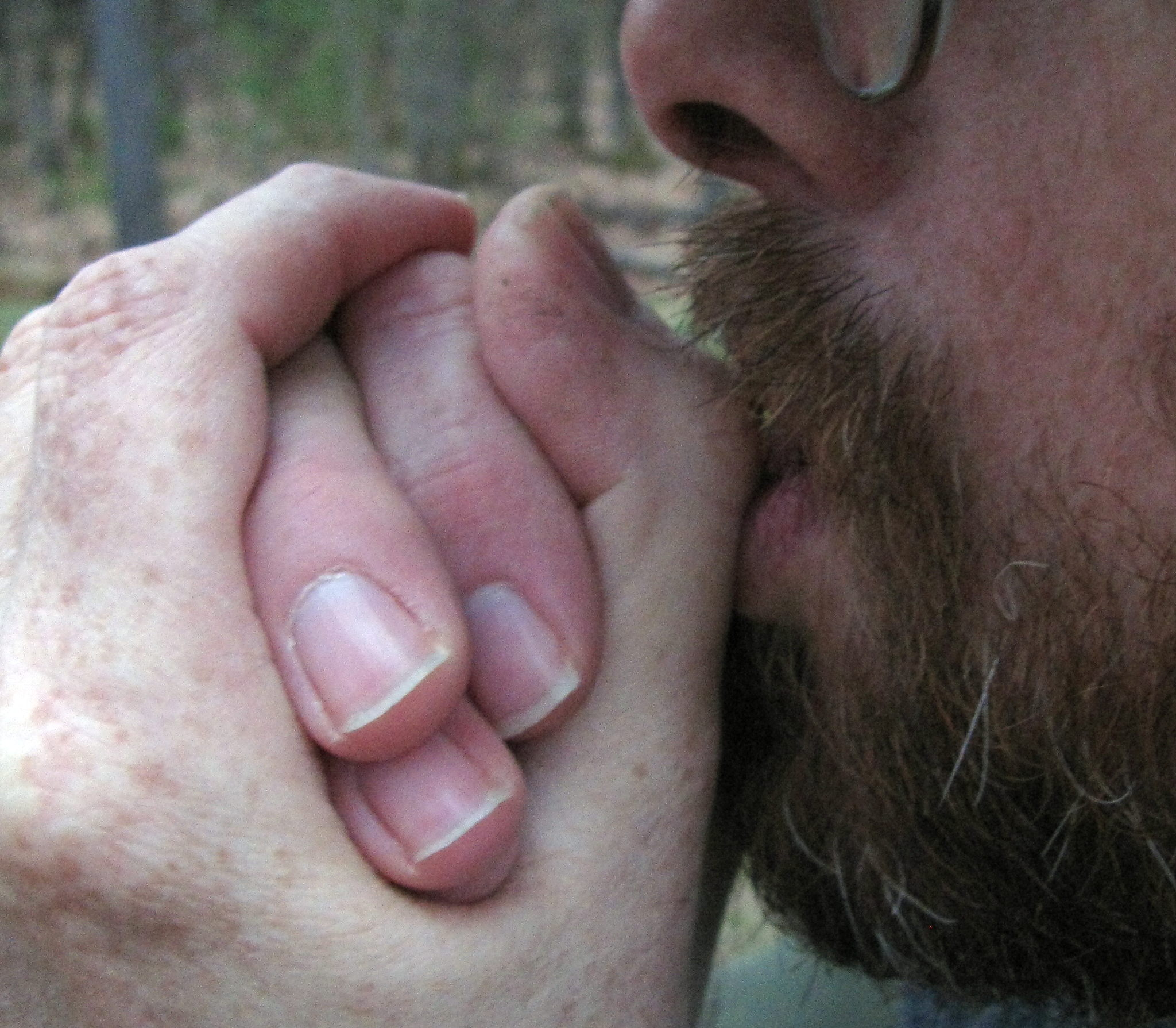 Photo showing the final position when whistling through the hands.